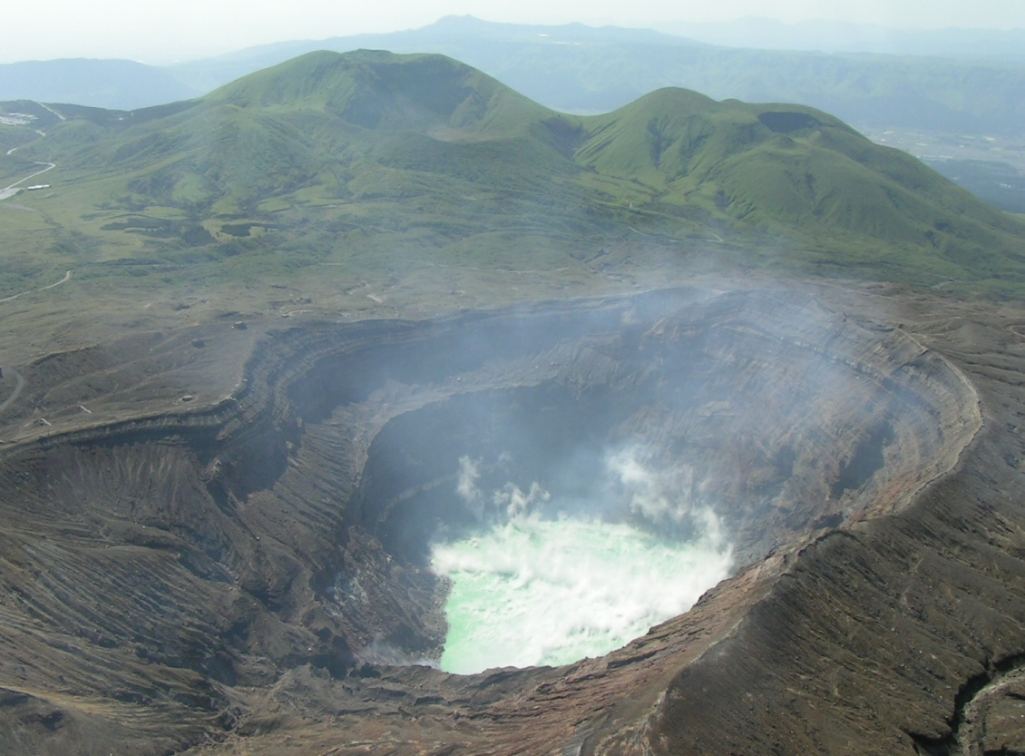 Aso volcano's Nakadake crater as seen from the NW. Mount Kishima in the back left and Mount Ojo in the back right.